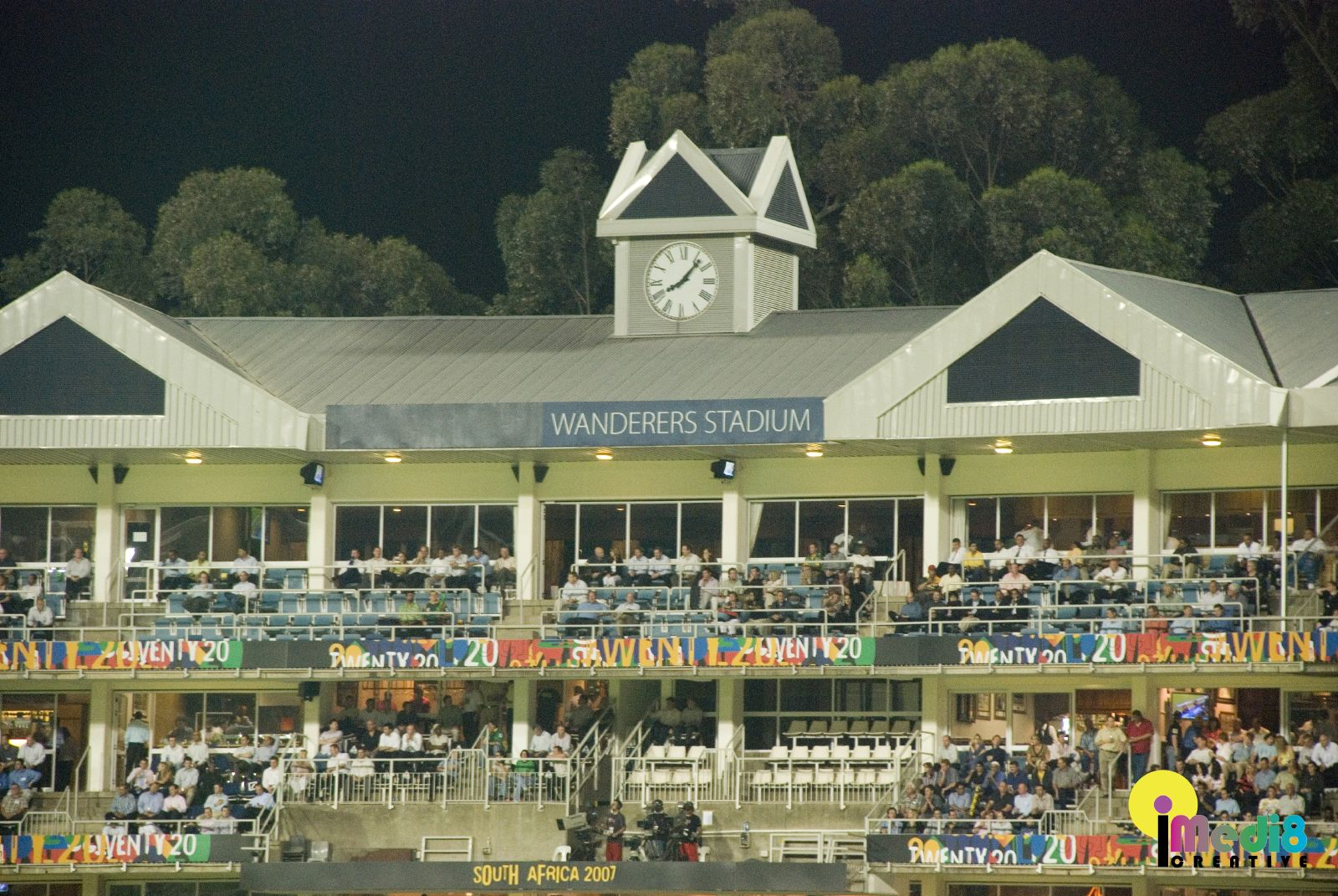 The Wanderers Stadium, Johannesburg, (pictured) during the opening match of the 2007 ICC World Twenty20